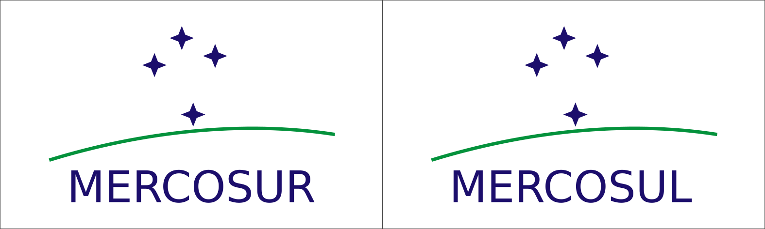 The flag of Mercosur, Portuguese version